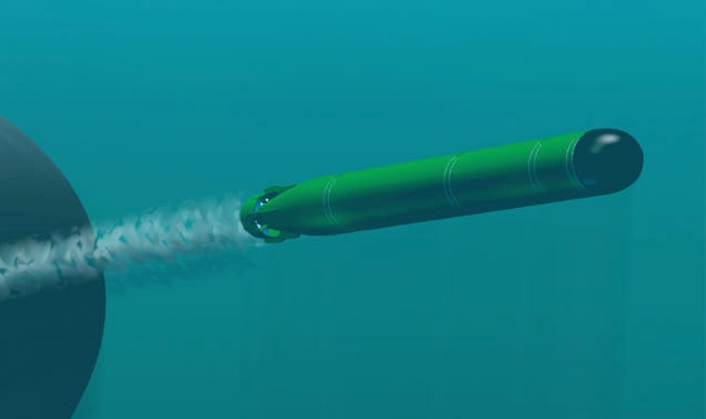 Cropped version - highligting the torpedo